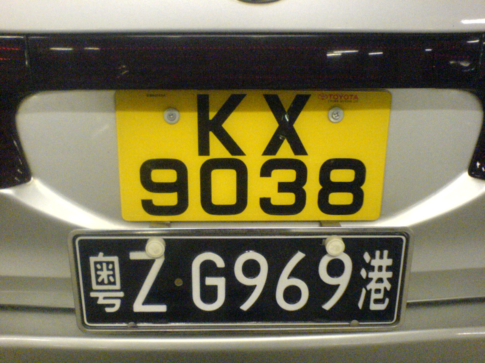 Typical license plate in Hong Kong, with a Hong Kong-China border crossing license plate